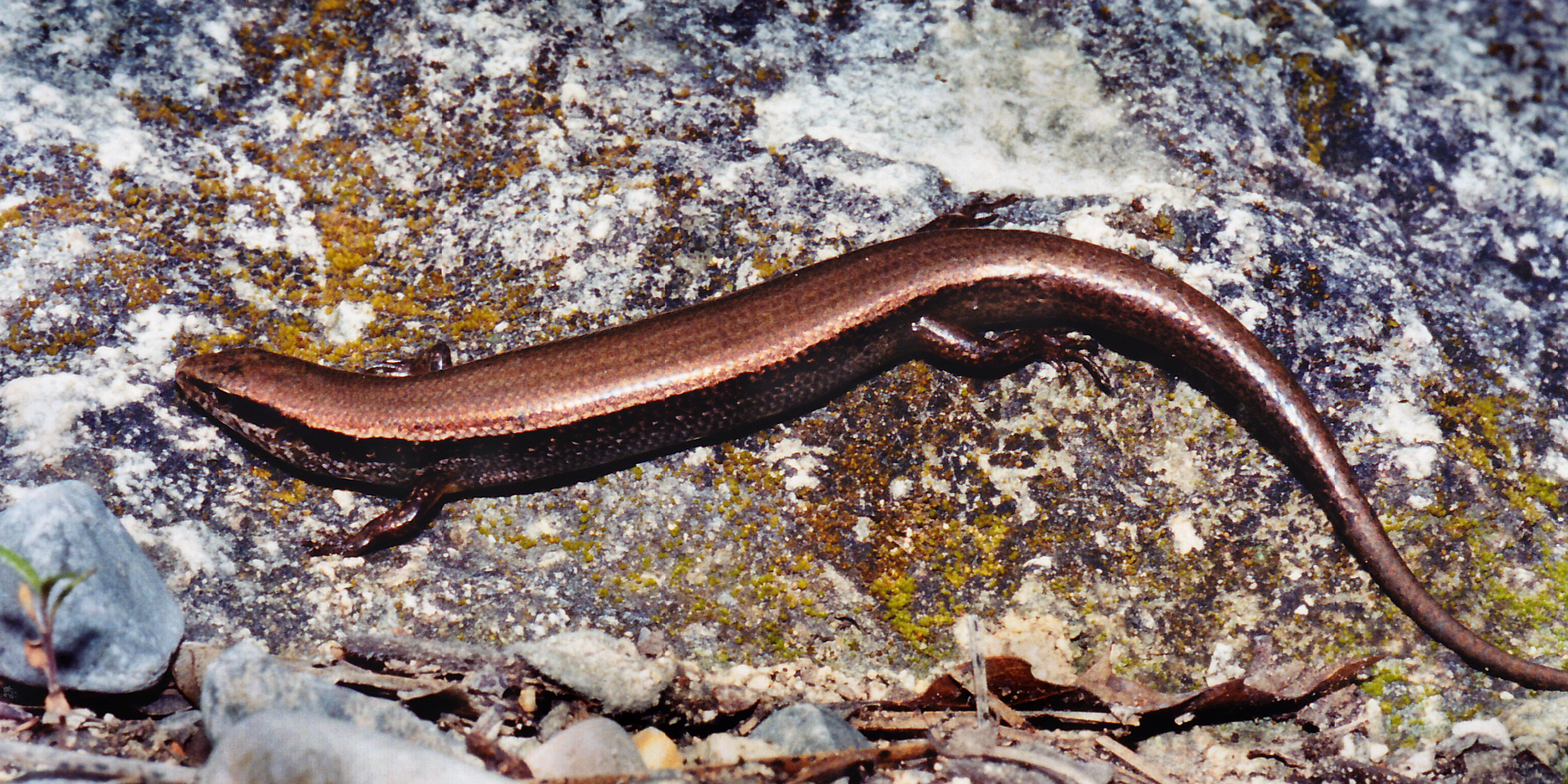 Horsetail Falls ground skink (Scincella [silvicola] caudaequinae) municipality of Jaumave, Tamaulipas, Mexico (11 August 2003). Photographed on 11 August 2003 by William L. Farr. This image was originally photographed with film and later scanned from a print.